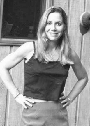 Ginna Marston, or Ginna Sulcer Marston, an advertising director at the Partnership for a Drug Free America, a nonprofit consortium of advertising agencies tasked with demarketing illegal drugs in the United States by making it unglamorous. Date of photo is uncertain. Location is Cortland, New York, US. Photographer is Michael Marston (Ginna's husband). Used with permission.